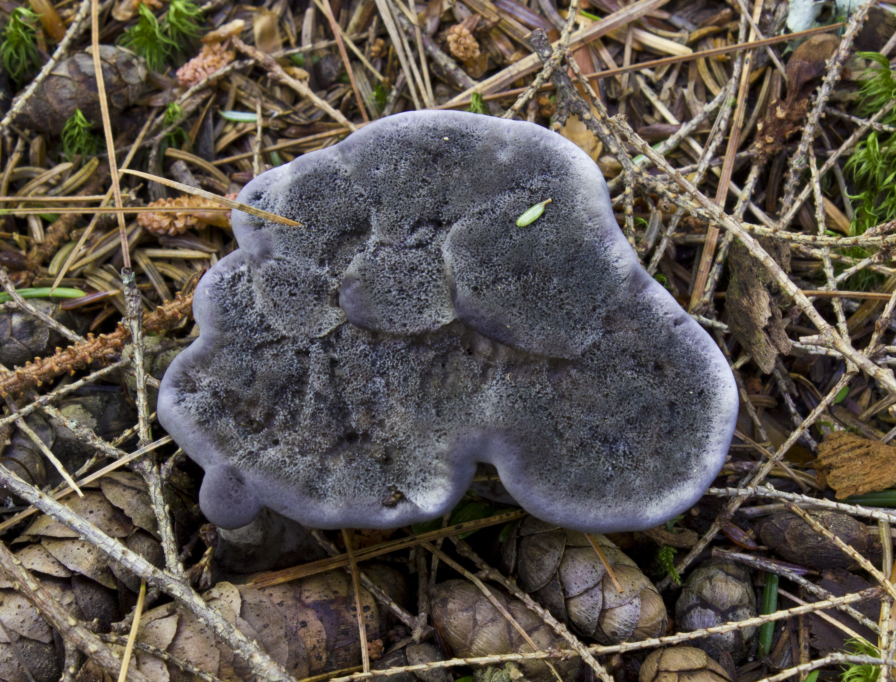 Phellodon niger (Fr.) P. Karst. Location: Oxford Co., Maine, USA For more information about this, see the observation page at Mushroom Observer.